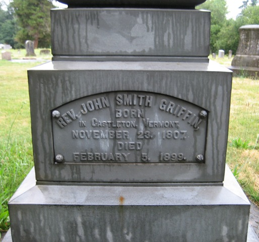 Grave marker of John Smith Griffin at Hillsboro Pioneer Cemetery, Oregon, USA.